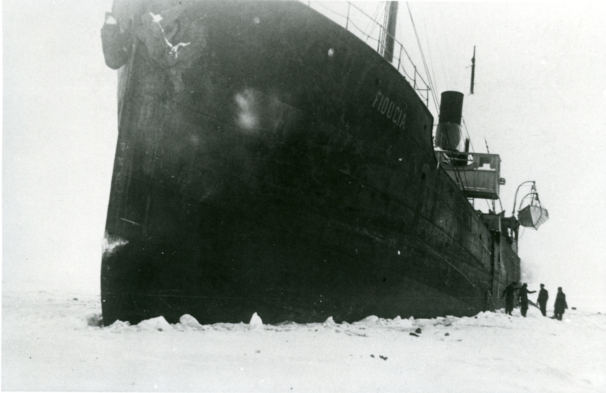 General cargo ship FIDUCIA built at shipyard Robert Thompson and Sons, Southwick, as KINGSCOTE (yard № 131, launched: 10-04-1883, completed: 04-1883), 1908 sold to Swedish owner and renamed NIOBE, 1923 ANVALL, 1935 sold to Finnish owner and renamed ZIVA, 1937 TORAS, 19-11-1939 German prize, 1940 FIDUCIA, 1942 returned to Finnland and renamed TORAS again, 18-01-1947 foundered in ice near Kotka, collection J. Robert Boman (1926 - 2002), owned by Sjöhistoriska museet.